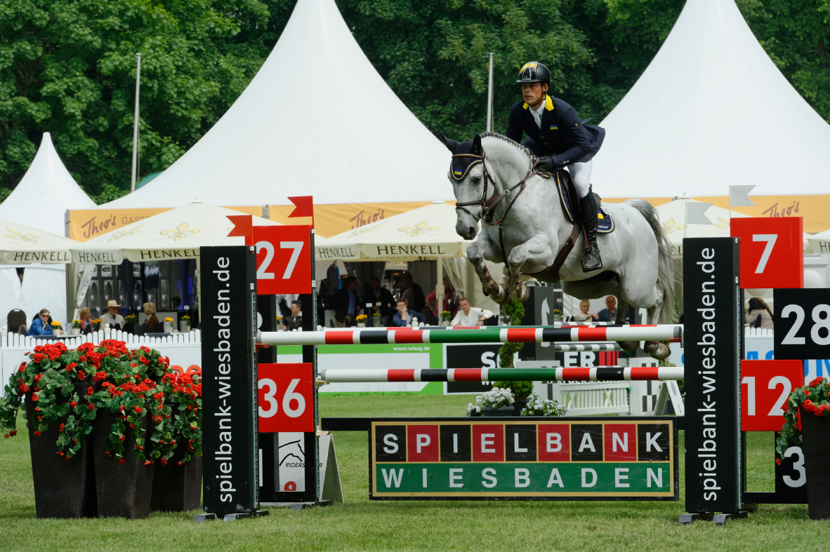 CSIYH* int. Springprüfung nach Strafpunkten und Zeit Internationales Pfingstturnier Wiesbaden 2015 The making of this document was supported by the Community-Budget of Wikimedia Germany.